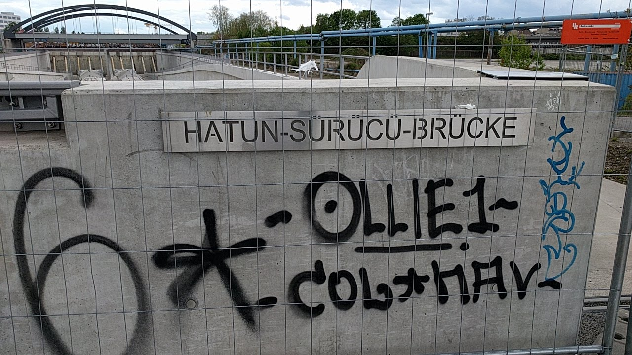 Bridge in the course of the street Sonnenallee over the Autobahn A 100 in Berlin-Neukölln named in memory of the Turkish woman Hatun Sürücü on February 7, 2018. On this day the murder of the Turkish woman turned the 13th time. Hatun Sürücü was only 23 when she died. One of her brothers killed her with three headshots on her doorstep. "Because she did not submit to her family's coercion and oppression, but lived a self-determined life," says the bronze plaque at the crime scene in Tempelhof.